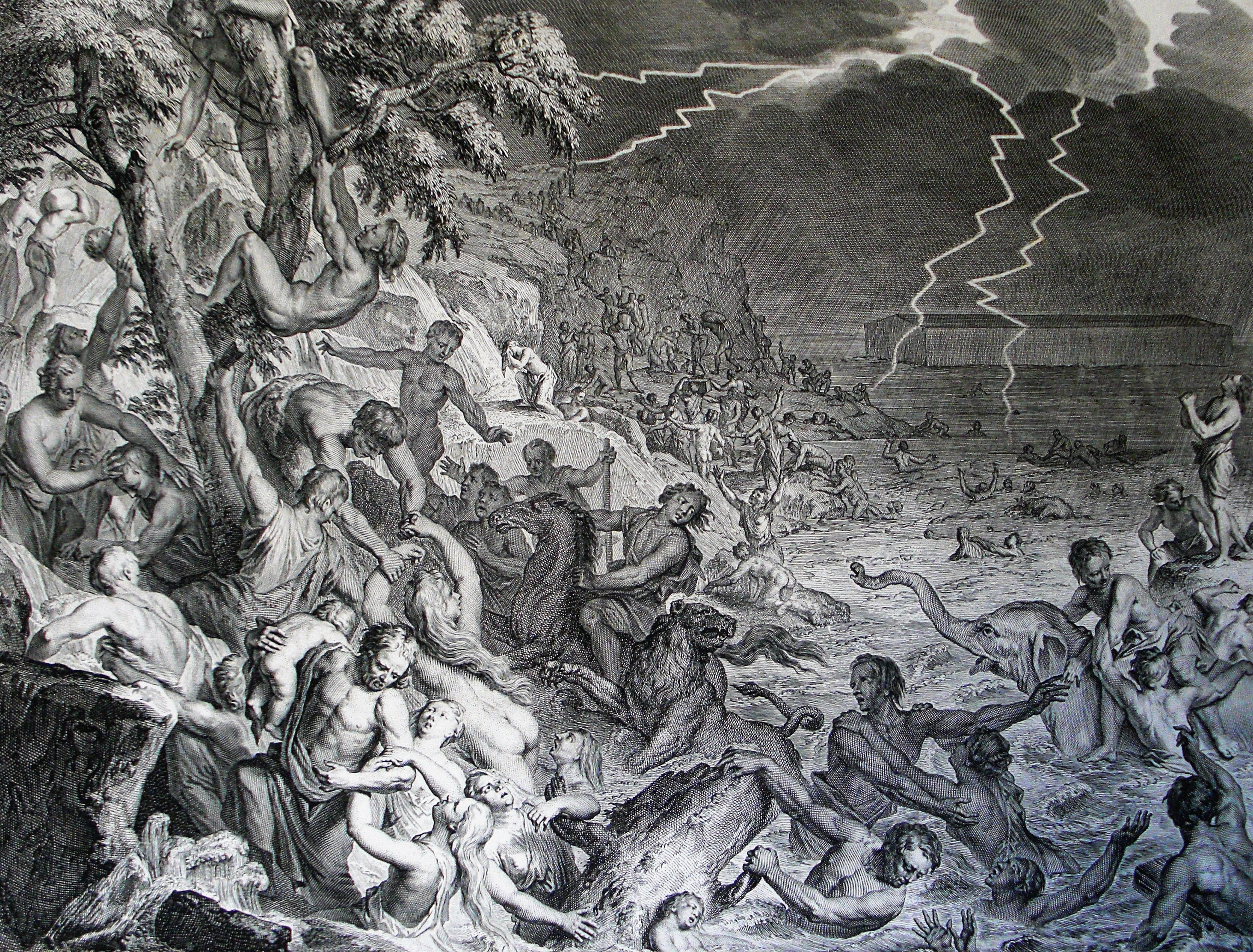 Noah's Ark and the Deluge. Genesis cap 7 v 12. Hoet